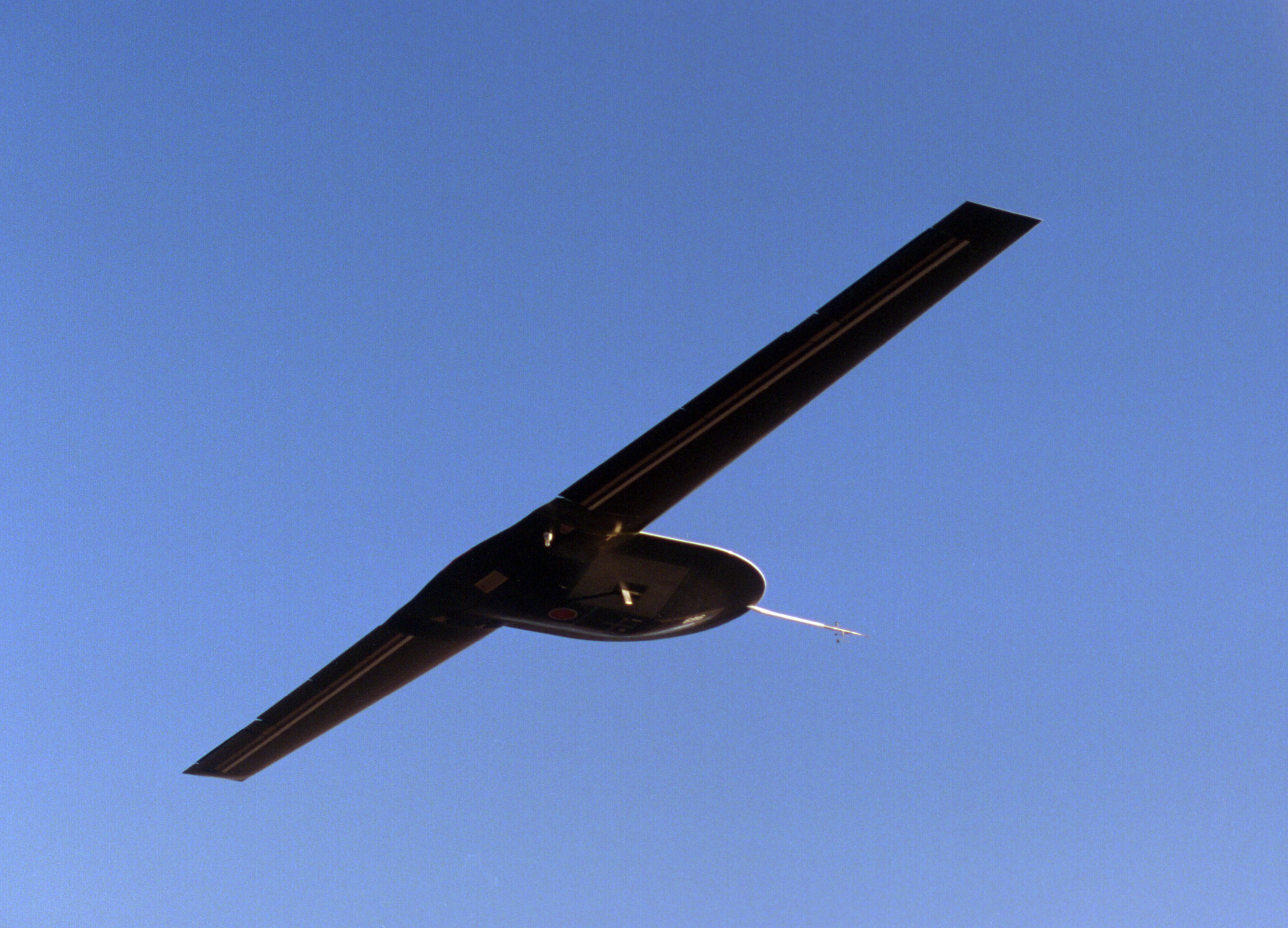 The second Tier III Minus DarkStar high altitude endurance unmanned air vehicle flies over the NASA Dryden Flight Research Center, Edwards Air Force Base, Calif., on June 29, 1998. The vehicle took off from the Air Force Flight Test Center at Edwards at 6:14 a.m. (PDT). During the 44-minute flight, the vehicle achieved an altitude of approximately 5,000 feet and completed pre-programmed basic flight maneuvers. The system successfully executed a fully autonomous flight from takeoff to landing utilizing the differential Global Positioning System.